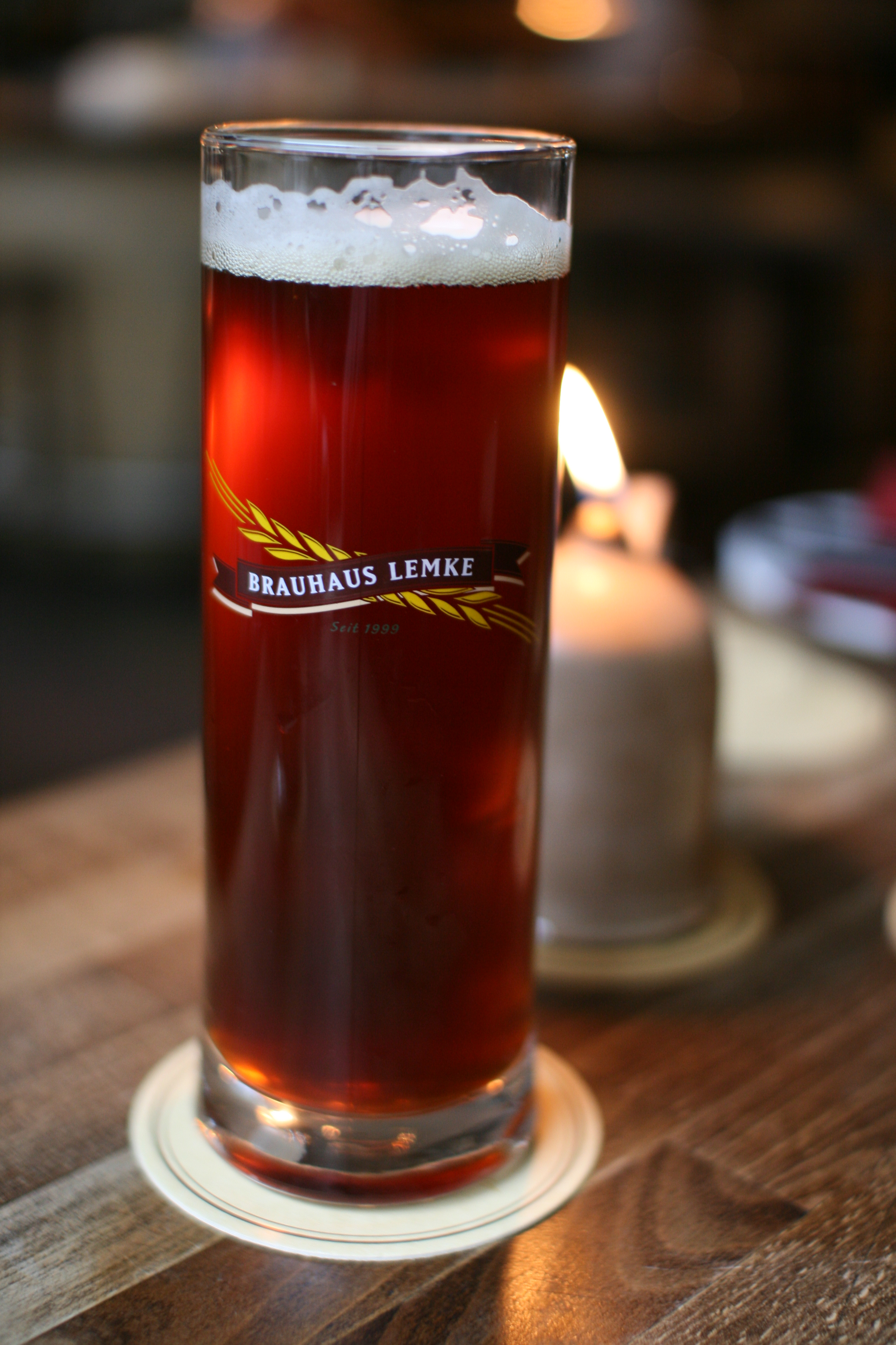 Dark Brauhaus Lemke beer in glass.